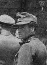 Stefan Baretzki is the SS guard carrying a stick. He often used it to beat prisoners.